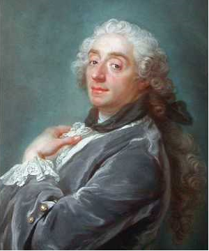 Nicola Conforto